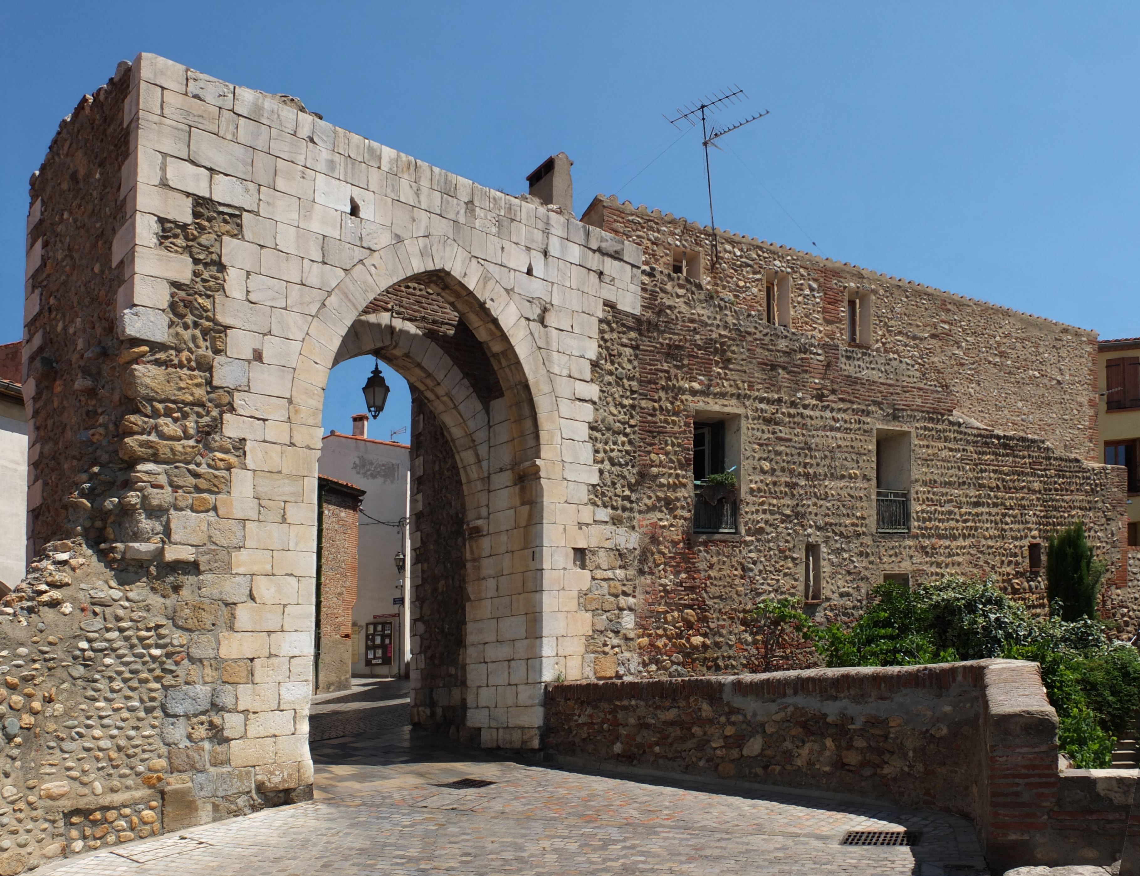 Porte de Balagué (Catalan: Porta de Balaguer), former town gate of Elne, France Base Mémoire: AP63P01029